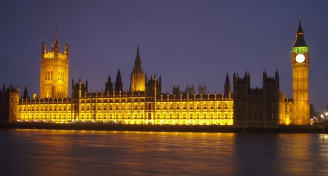 Westminster Palace Westminster Palace at night